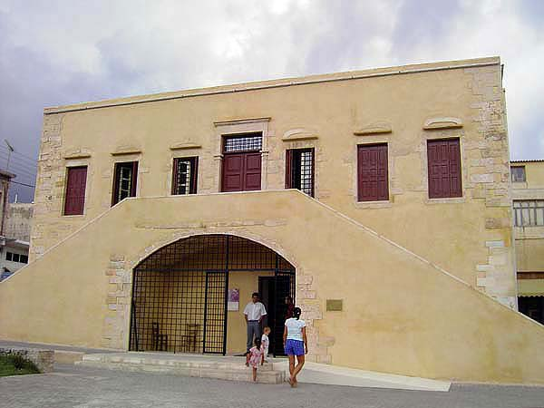 Archaeological Museum in Kissamos Crete, Greece